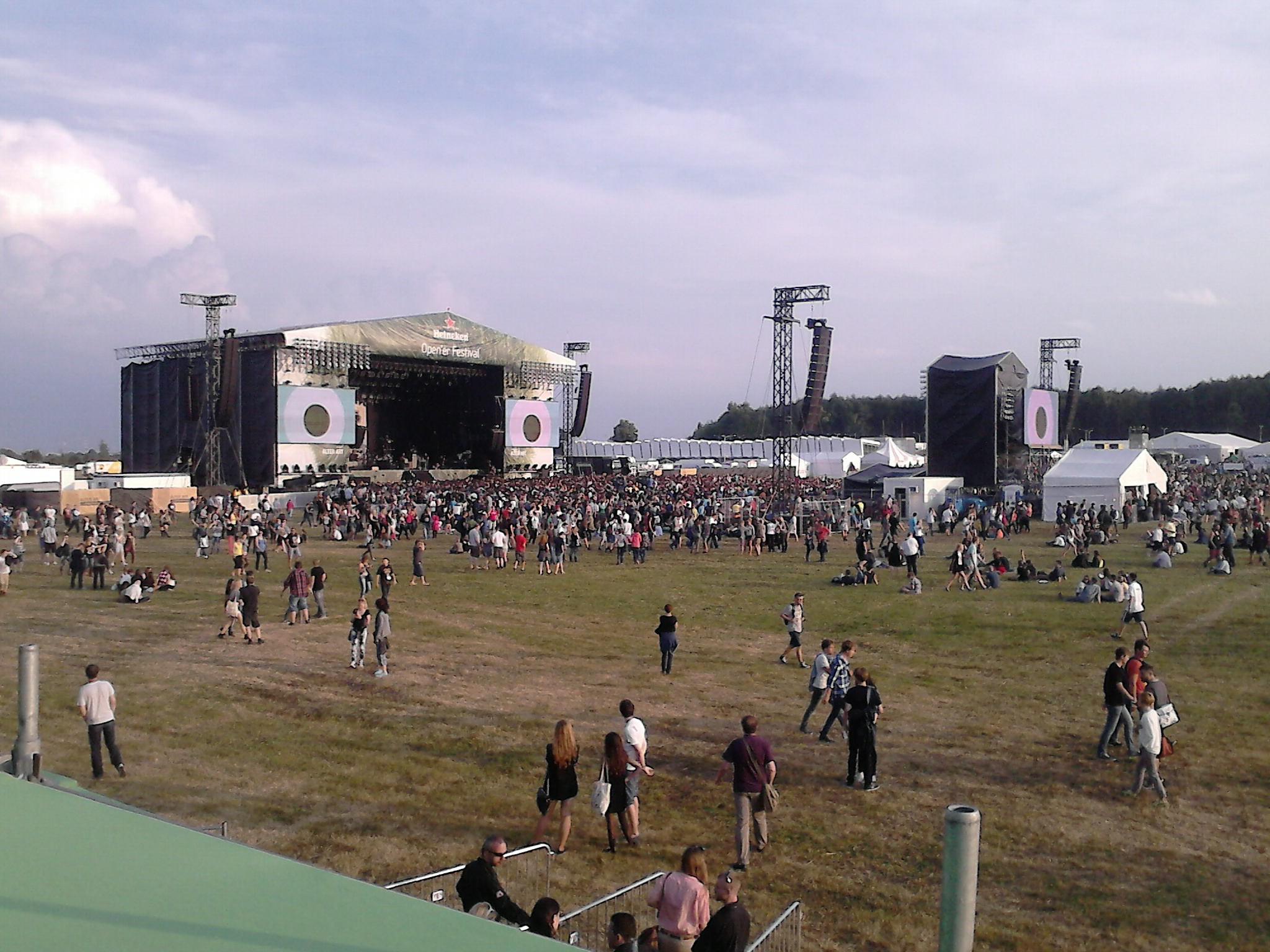 Main stage of Heineken Open'er Festival 2013 seen from VIP Zone. Before The Editors' performance.